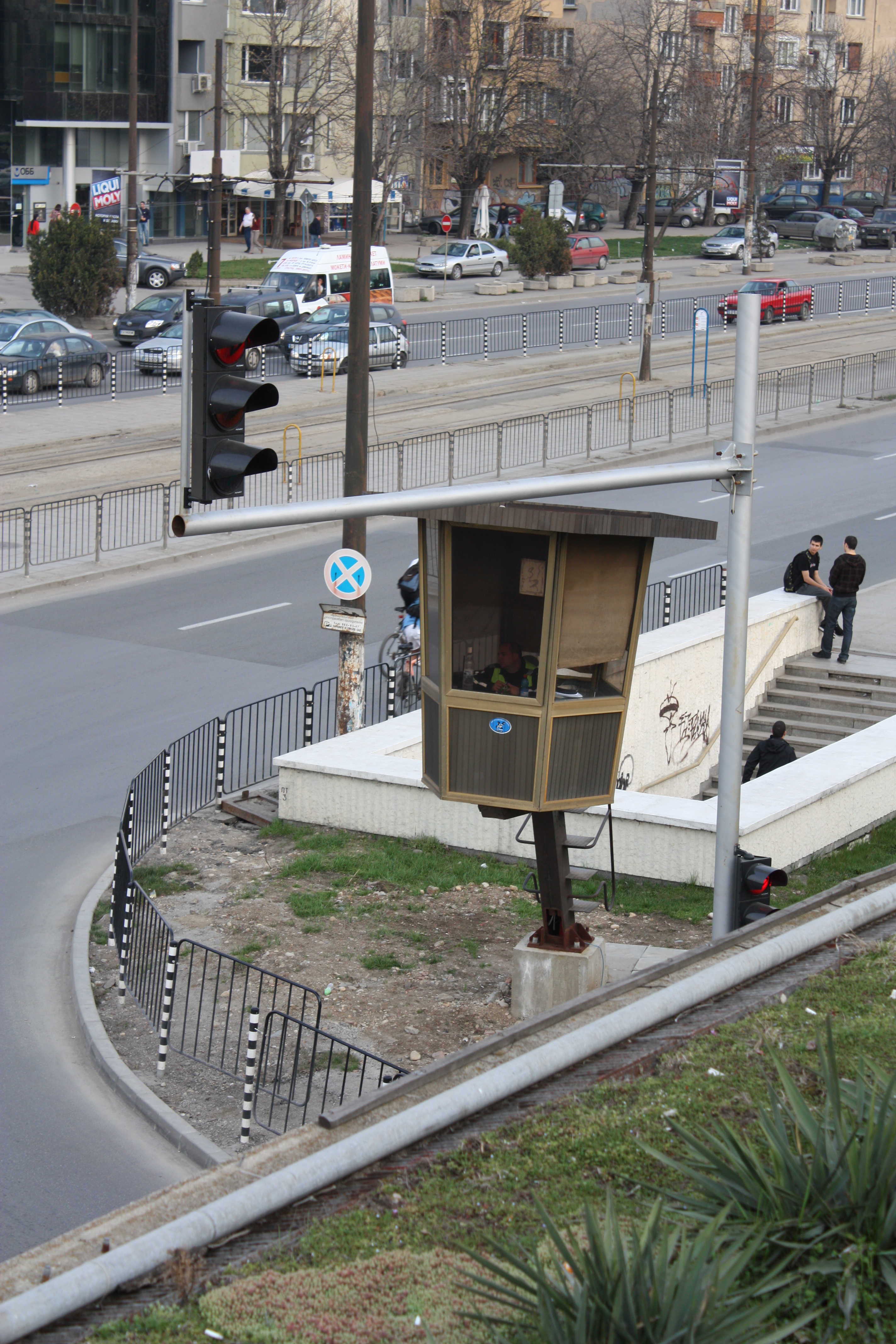 Police box in Sofia at a street crossing, Bulgaria